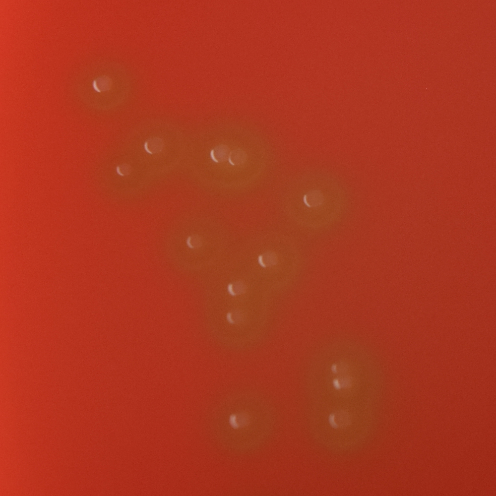 Alpha-hemolysis of Streptococcus pneumoniae on blood agar